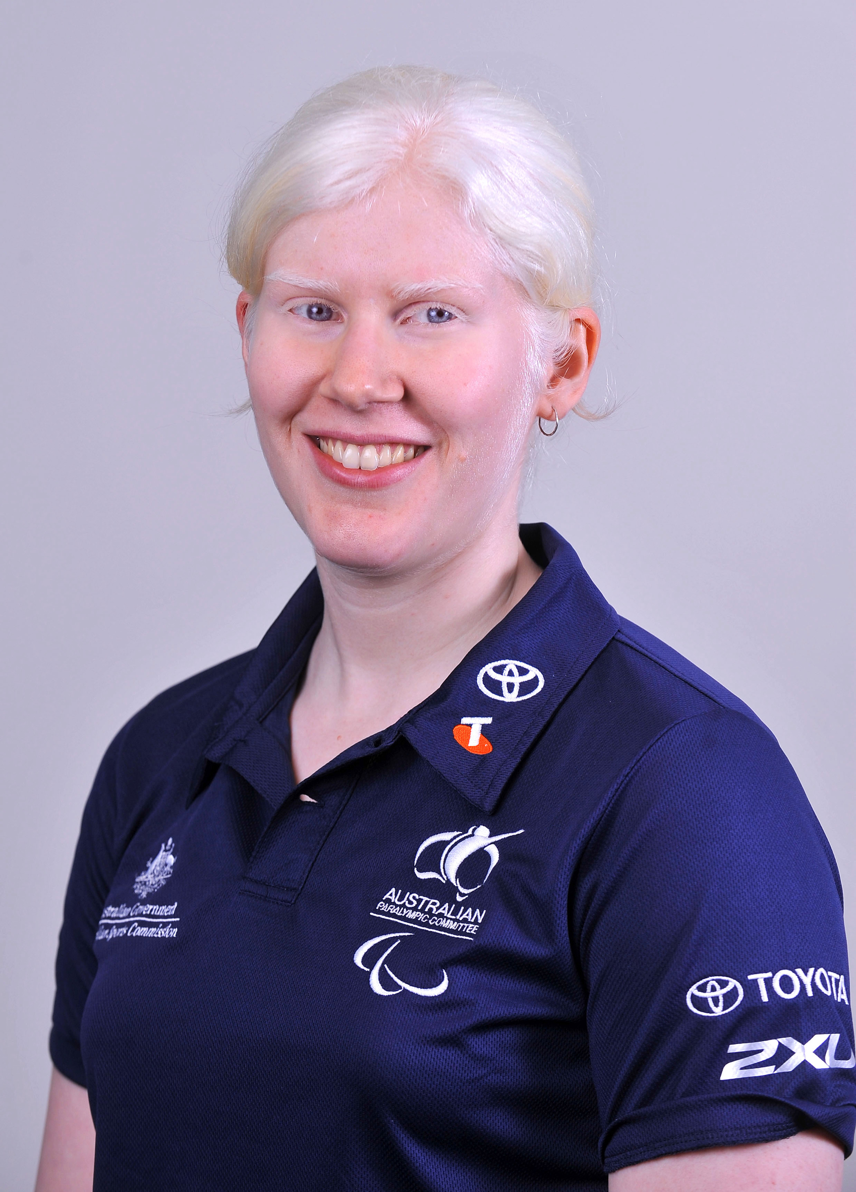 Portrait of Australian goalball player Nicole Esdaile, 2012 Australian Paralympic (shadow) Team athlete